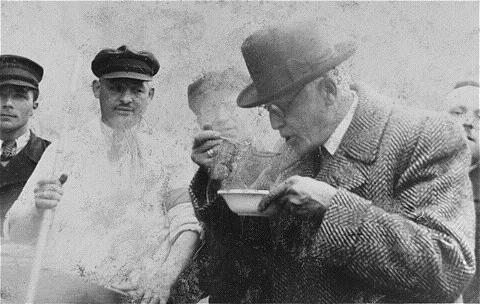 Ghetto Litzmannstadt: Chaim Rumkowski tests the soup at one of the many soup kitchens run by the Judenrat.